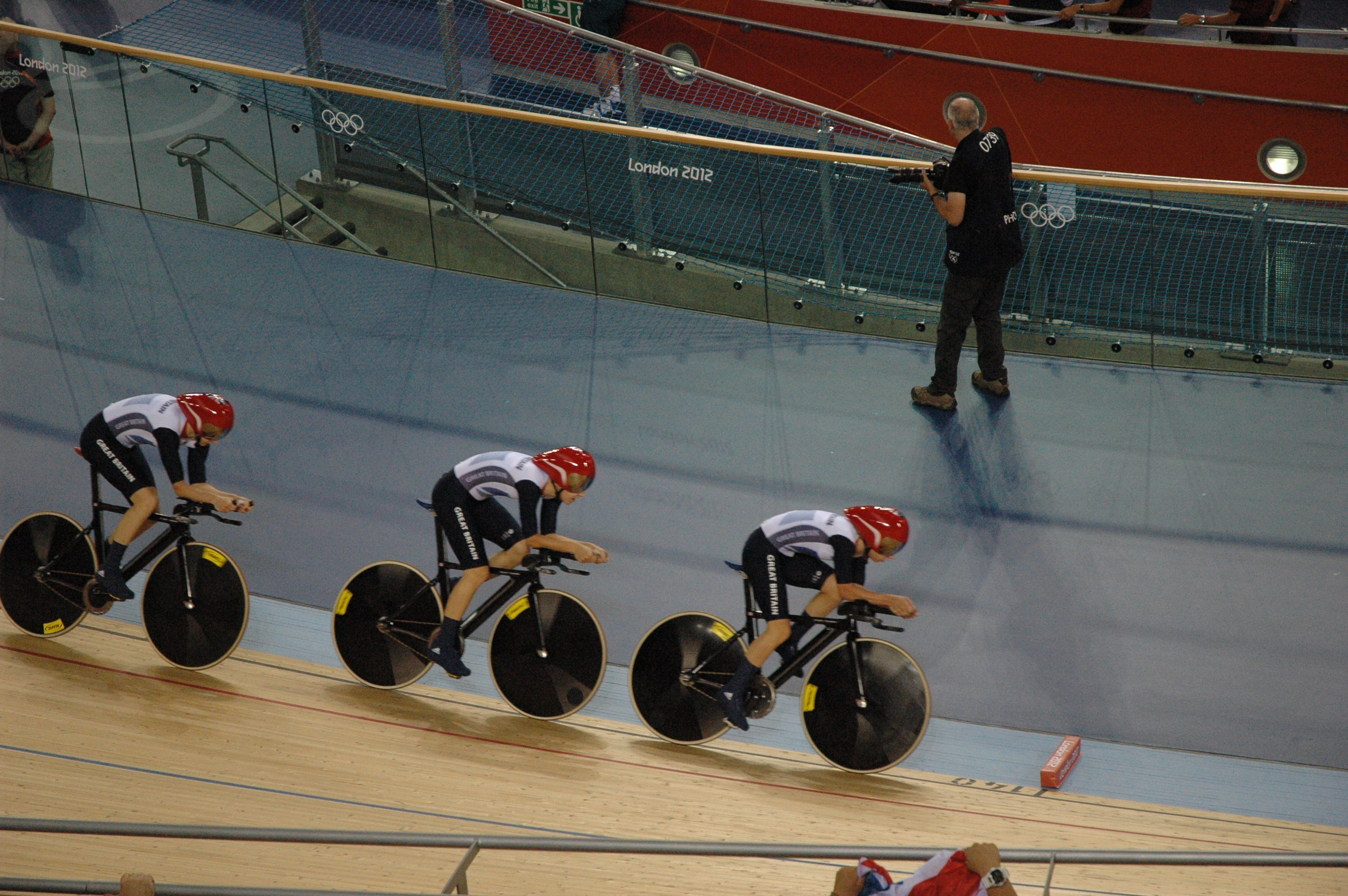 Cycling at the 2012 Summer Olympics – Women's team pursuit. The British team (CT004, 4 August)